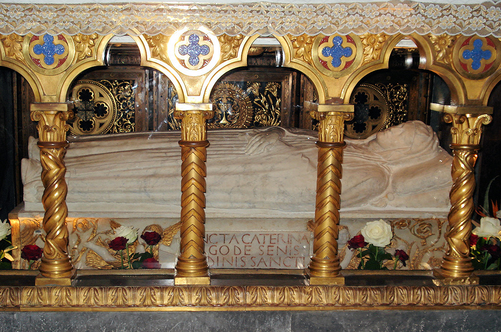 Sarcophagus of Saint Catherine of Siena beneath the High Altar of the church of Santa Maria sopra Minerva, Rome.